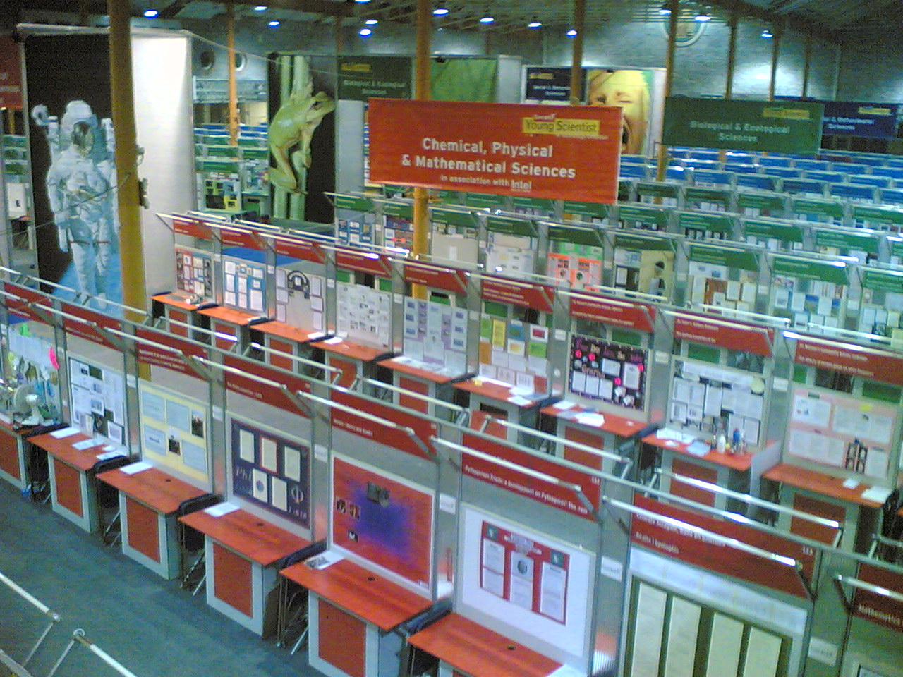 Photo of stands at the EsatBT Young Scientist and Technology Exhibition